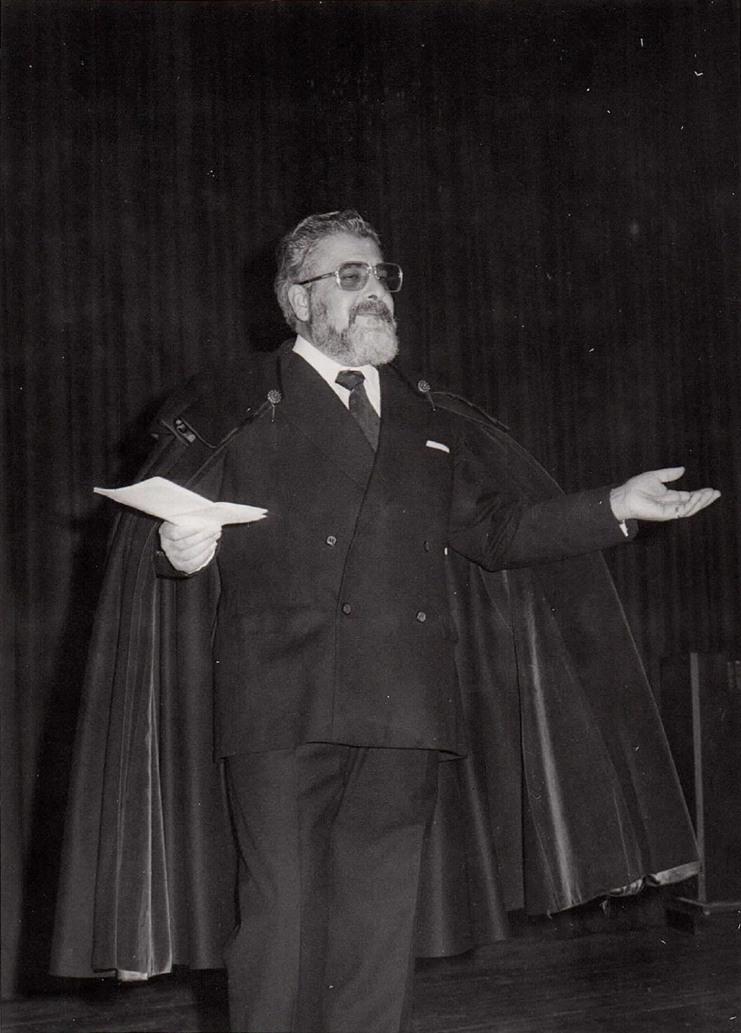 Photograph of the Spanish physician and trovero Carlos Romero Galiana during a poetic reading, wearing a suit and a black cape. The image contains a dedication on the back, with May 8, 1982 as the date.